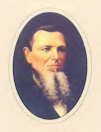 Andrew Jackson Hamilton, 11th Governor of the State of Texas.